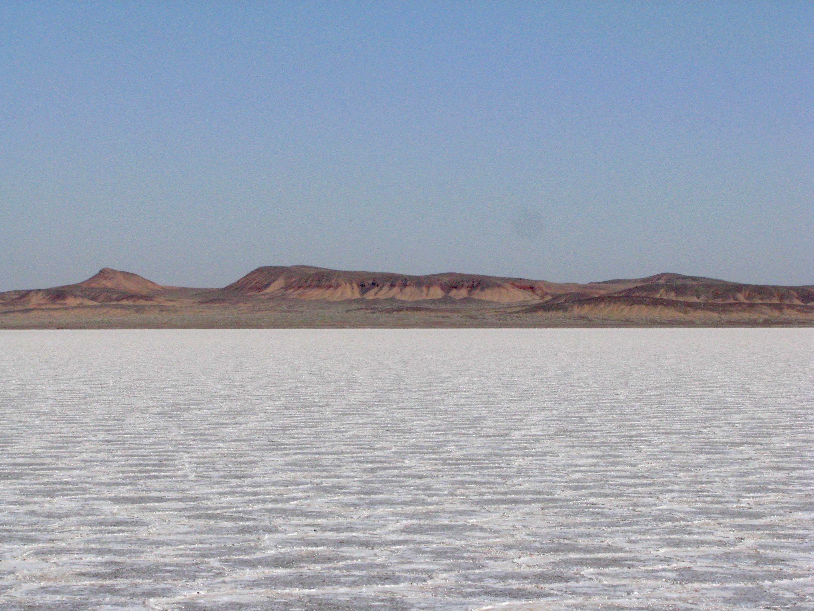 Wanderer Island is a famous hill in Maranjab dry lake.